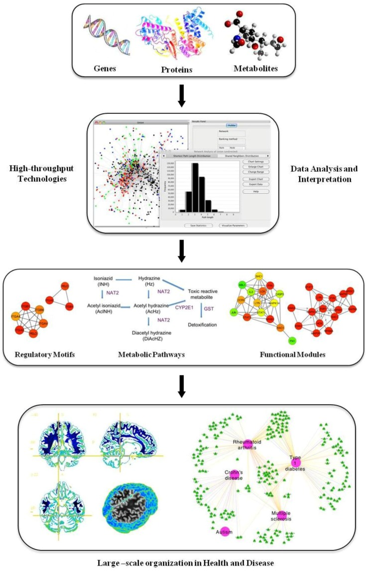 Scheme of a systems biology approach.